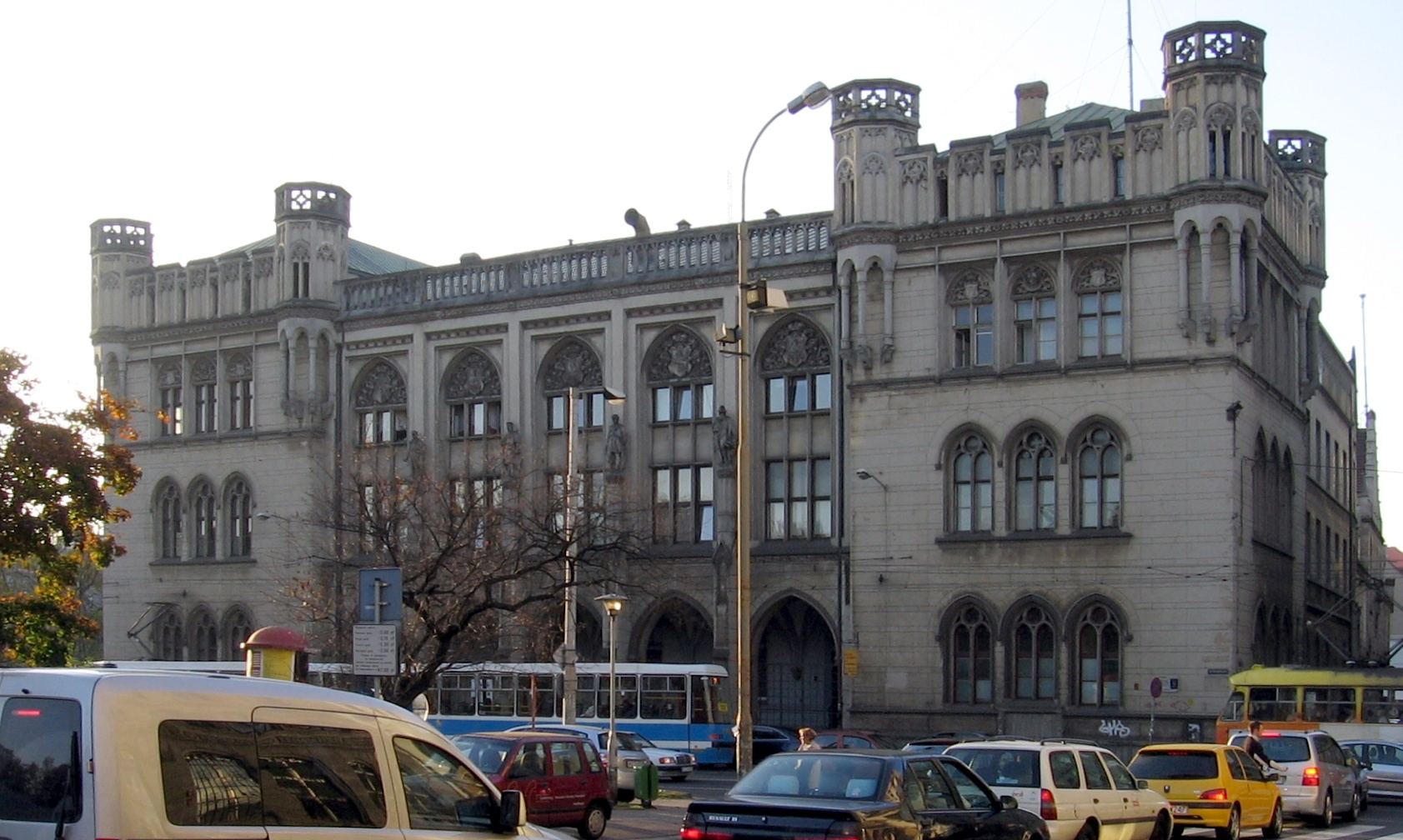 Wrocław, Poland Krupnicza street, former New Stock building, now - sport club Gwardia hall (voleyball, boxing etc.)